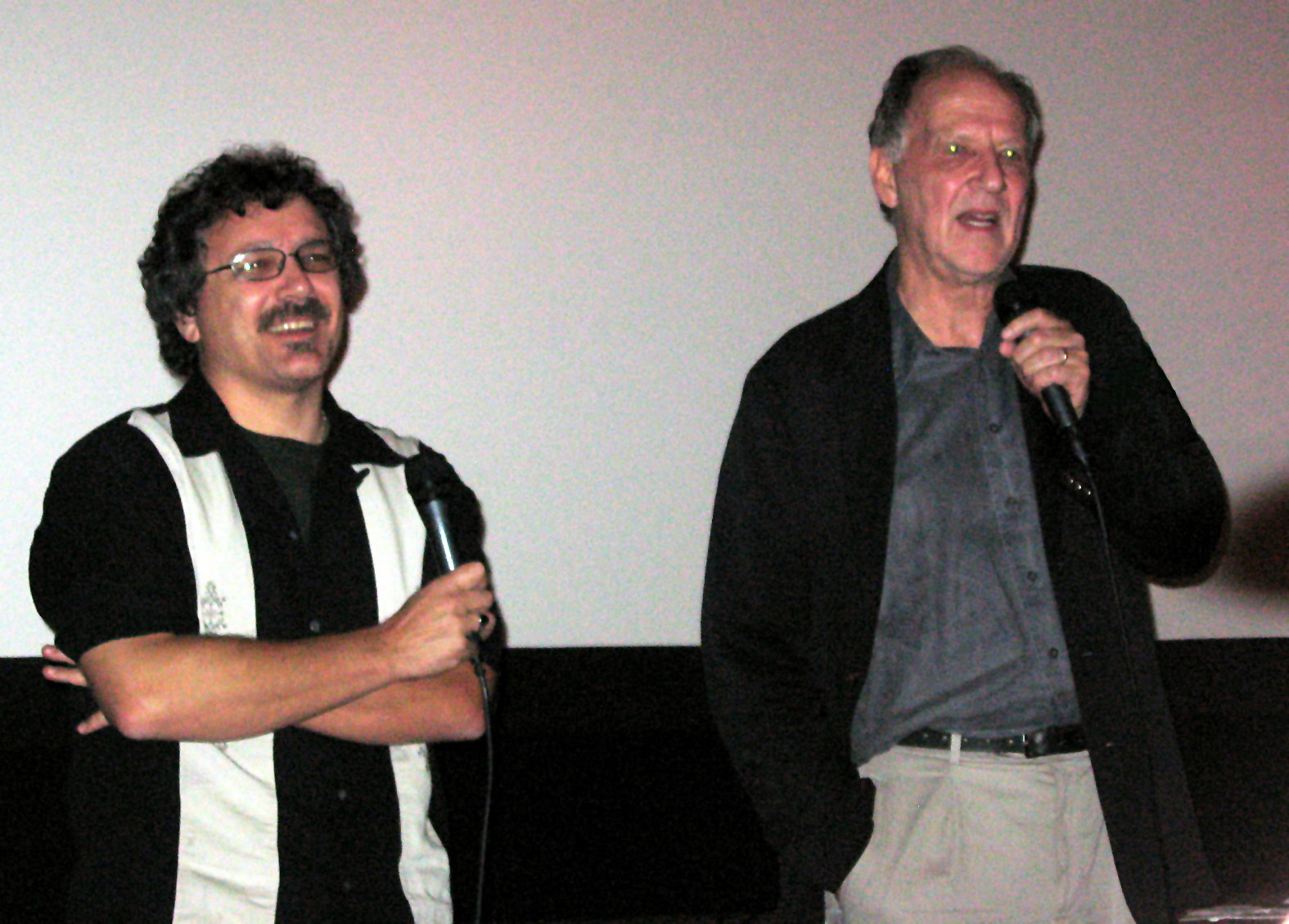 Film editor Joe Bini and director Werner Herzog in a Q&A at the New Beverly Cinema for a screening of "Encounters at the End of the World".